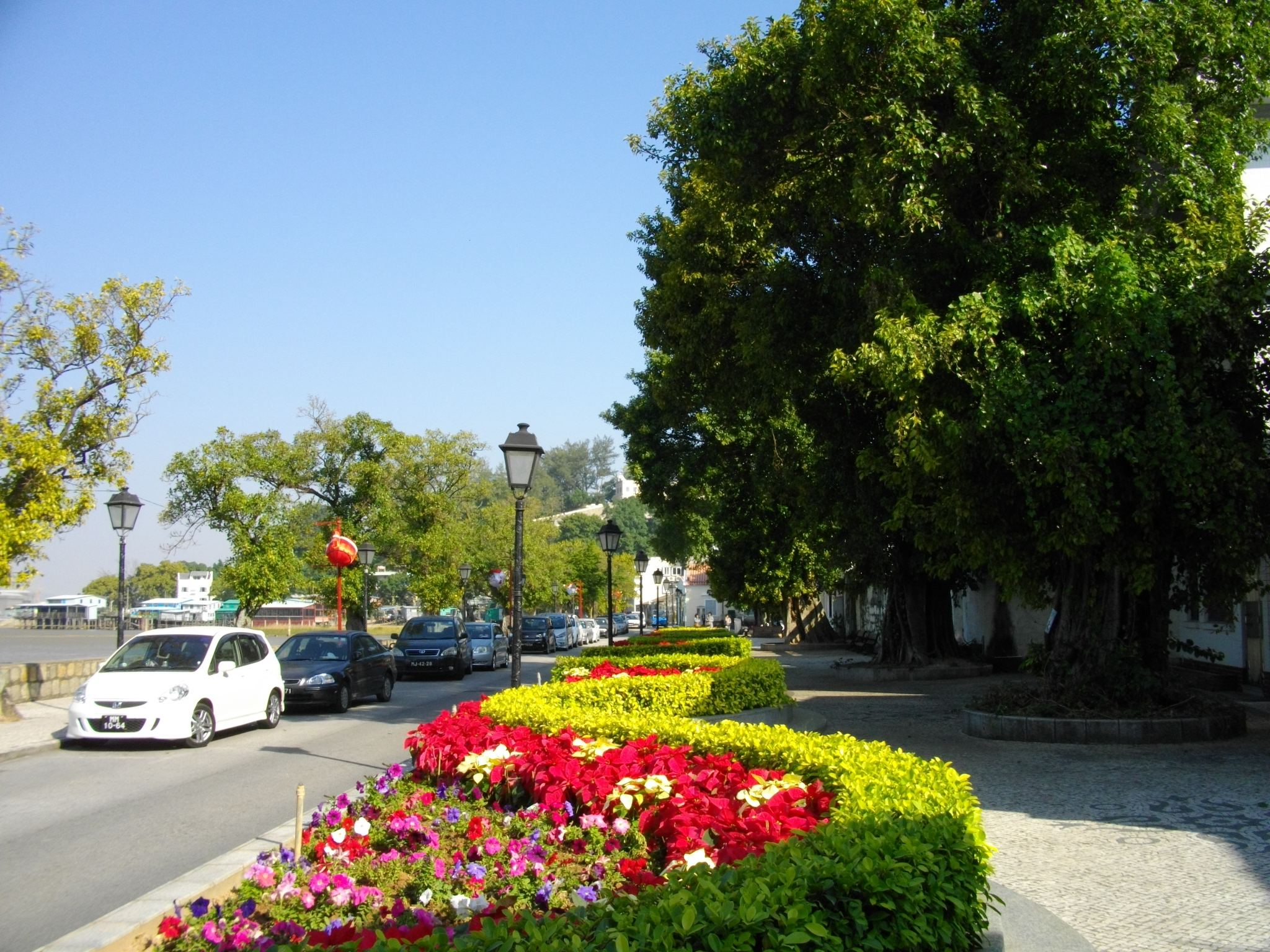 5th October Avenue